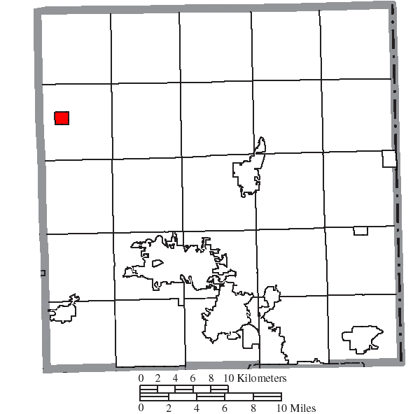 Map of the municipal and township boundaries of Trumbull County, Ohio, United States, as of the 2000 census, with the location of the village of West Farmington highlighted. Township borders are shown only in unincorporated areas in order to differentiate incorporated and unincorporated areas more clearly.